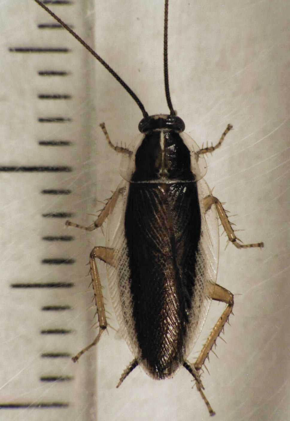 Balta spuria (probably), live male